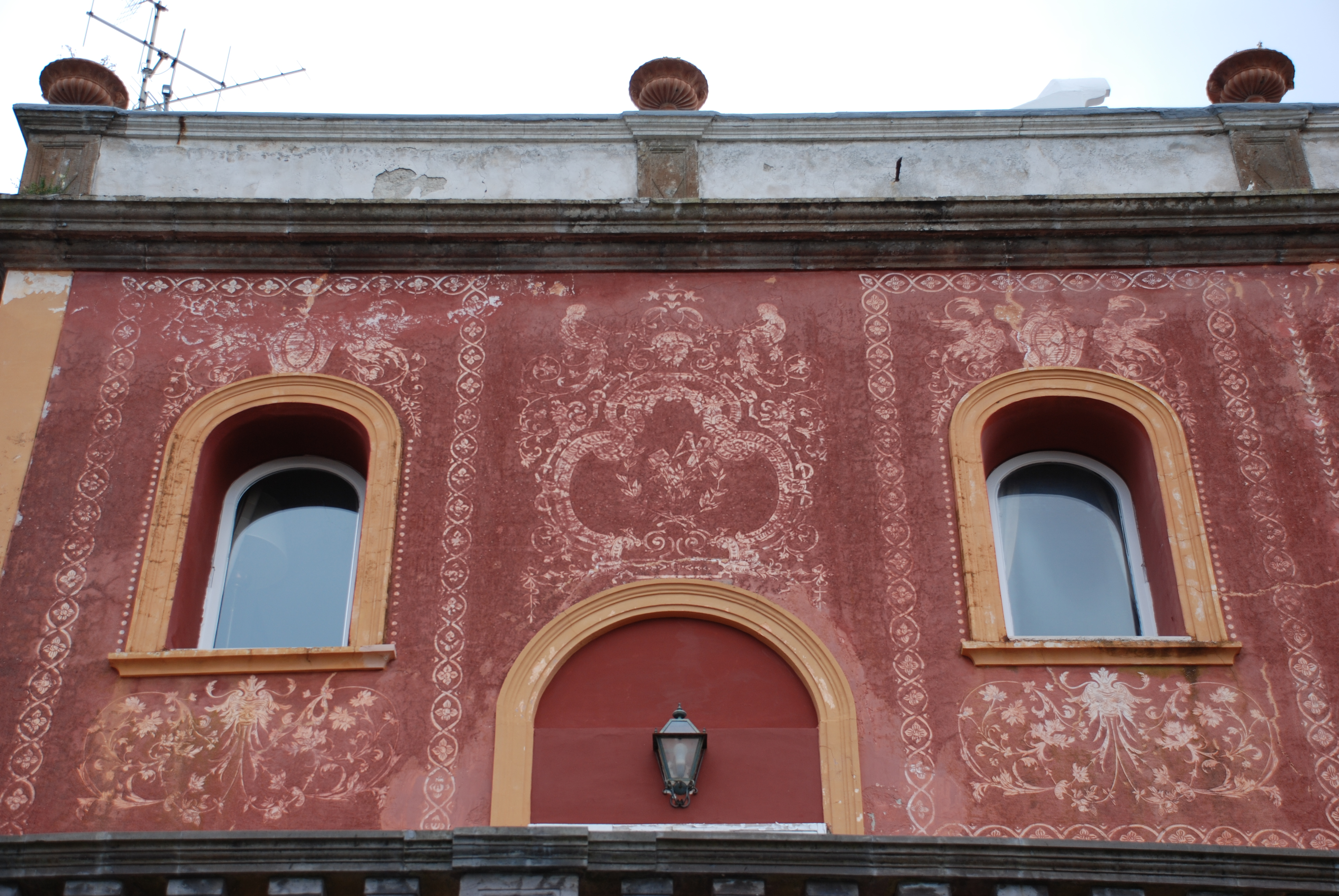 The so-called 'Casa Pompeiana' in via Camerelle.